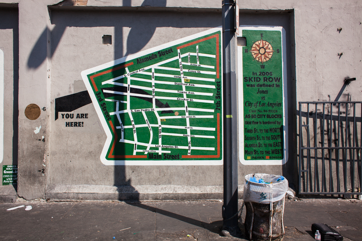 This mural depicts the boundaries of Los Angeles's Skid Row district as set forth by the 9th circuit court in Jones vs. The City of Los Angeles case number 04-55324